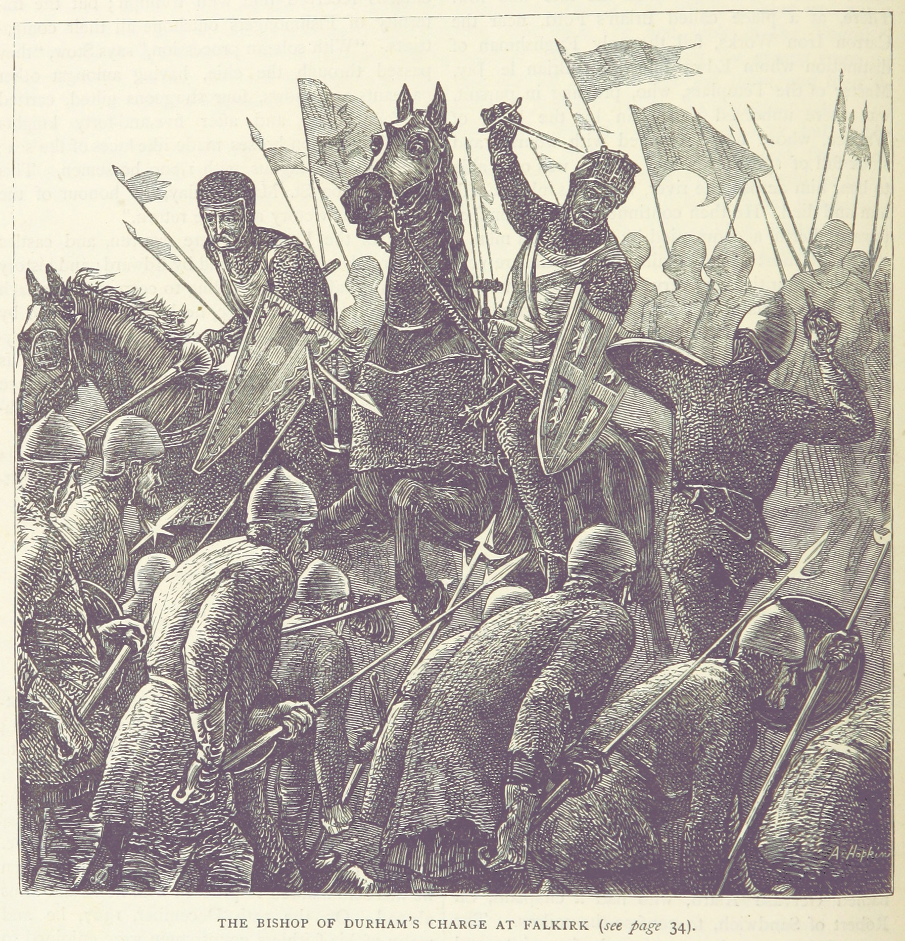 The charge of Antony Bek, Bishop of Durham, at the Battle of Falkirk